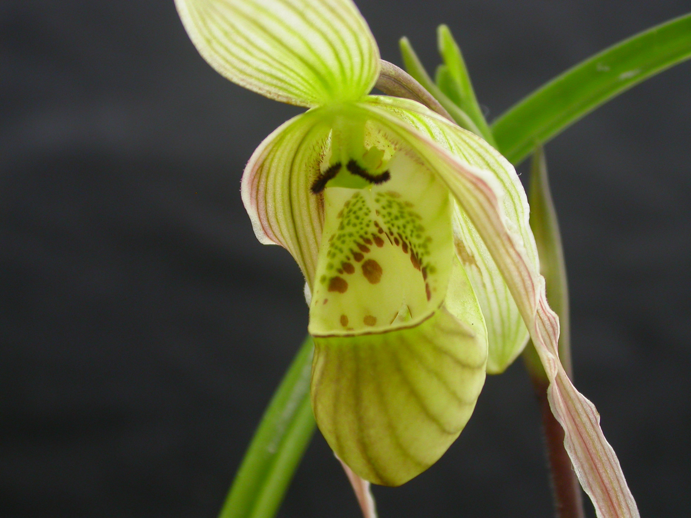 Phragmipedilum_pearcei